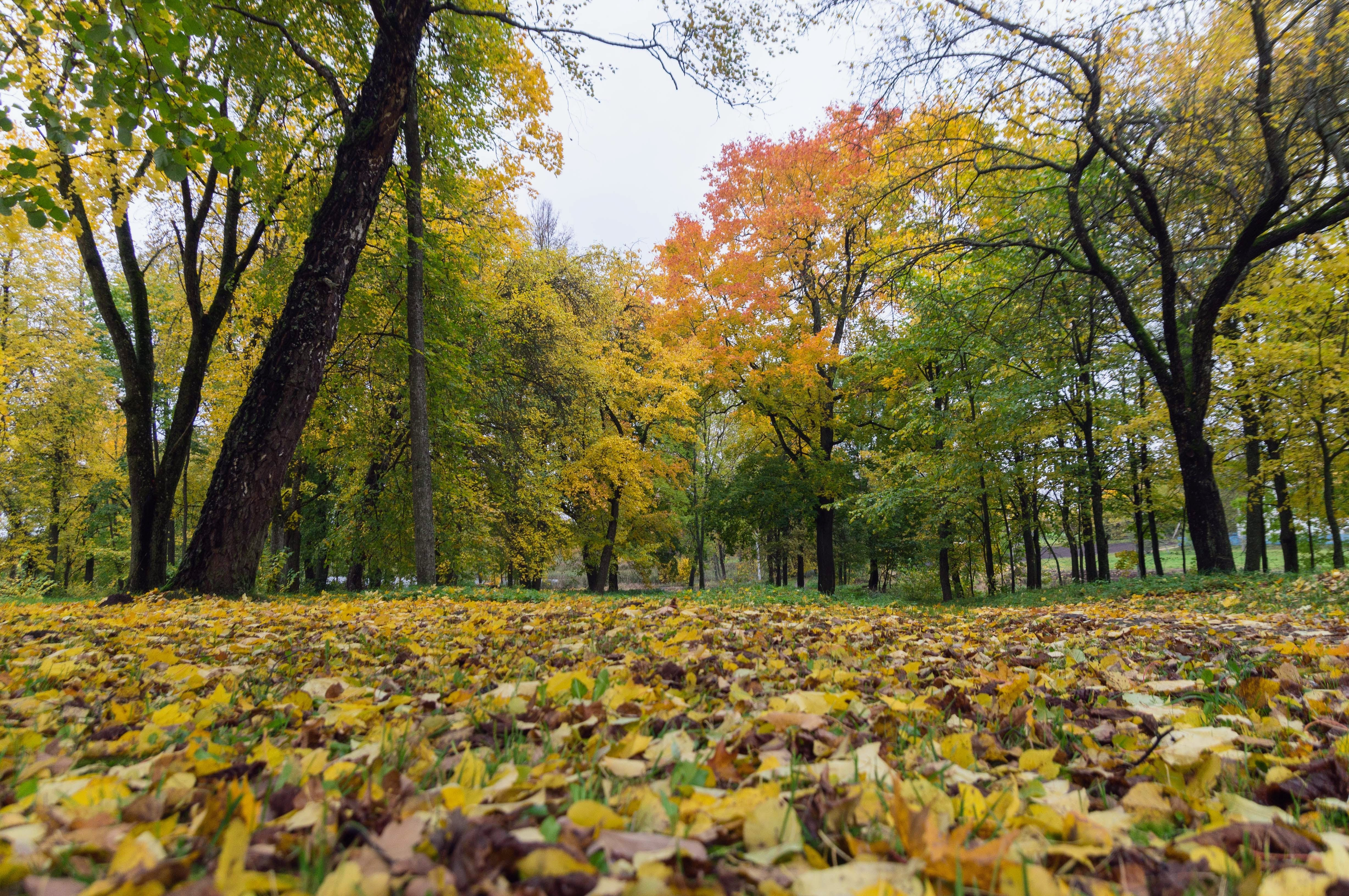 Park in ag. Luban of Vileyka district is a botanical natural monument of local significance